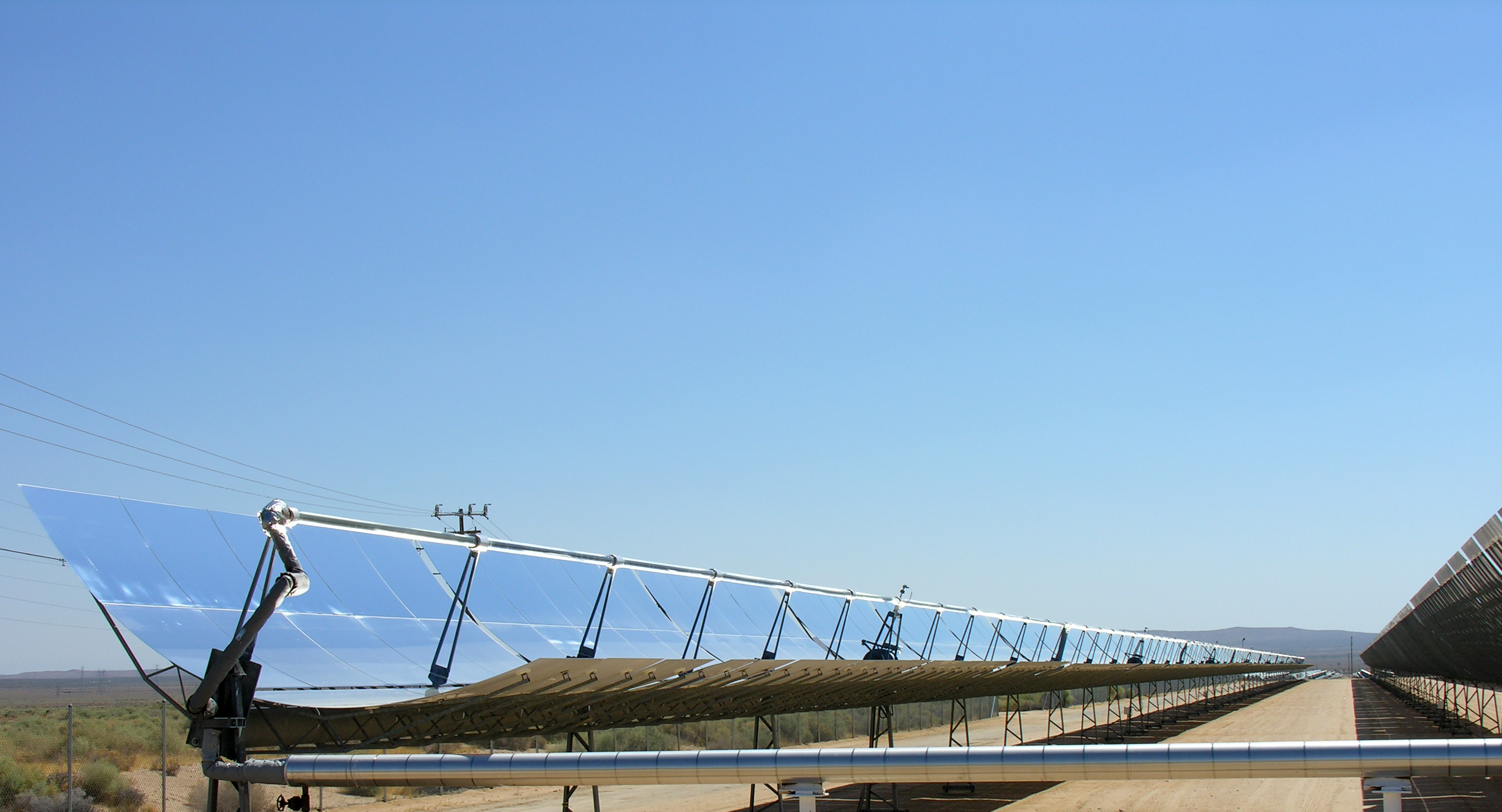 Description: This is a parabolic trough solar thermal electric power plant located at Kramer Junction in California. Source: The photograph was taken by kjkolb. Date: 9/15/2005 Copyright: The photograph is released under GFDL and cc-by-sa-2.5